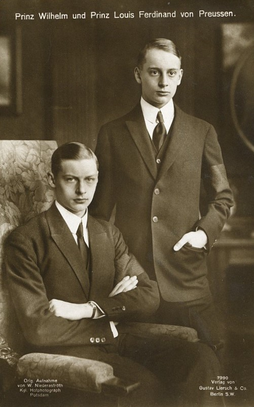 Prince Wilhelm of Prussia (1906–1940) und Prince Louis Ferdinand of Prussia (1907–1994)